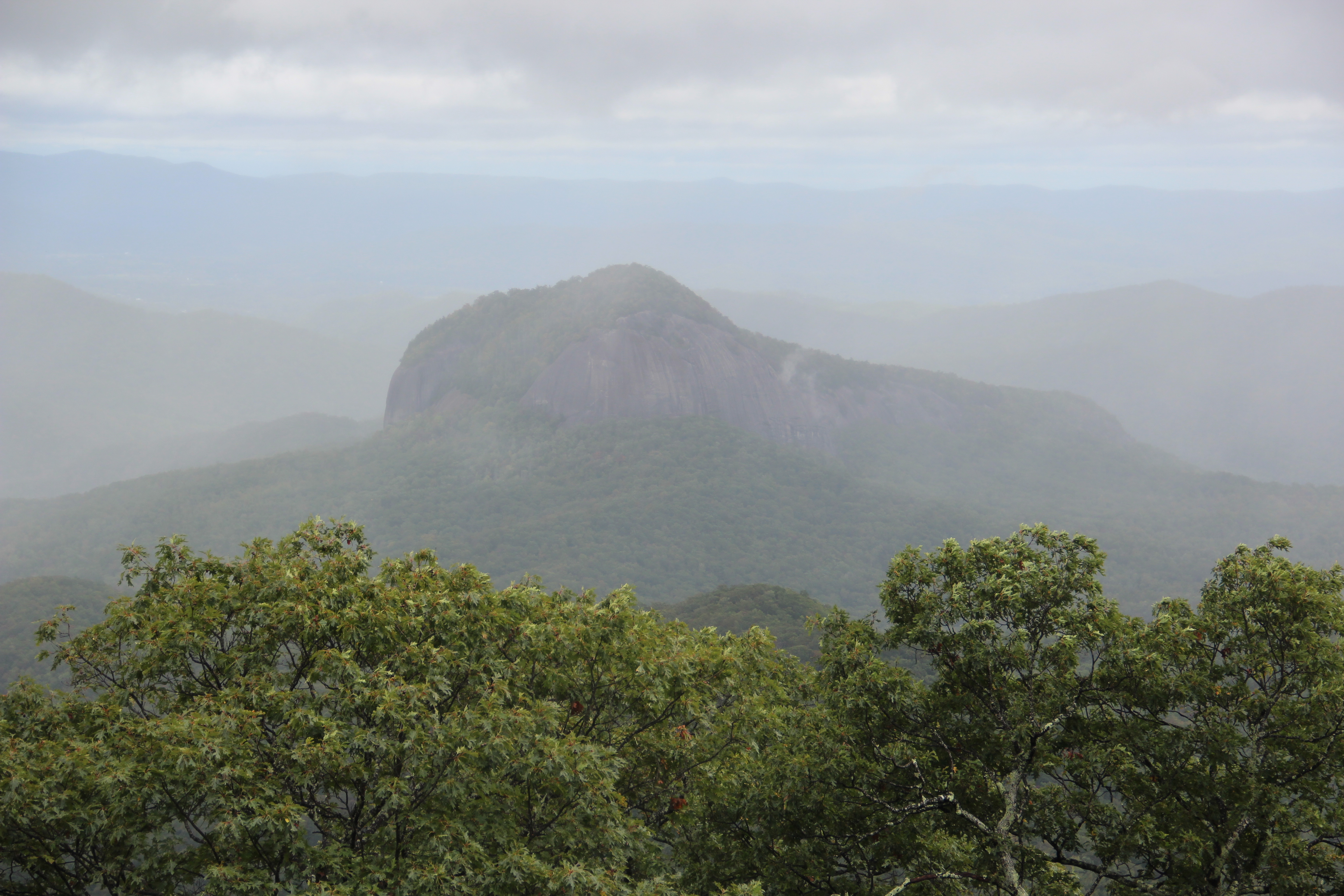 Looking Glass Rock in the rain, October 2016